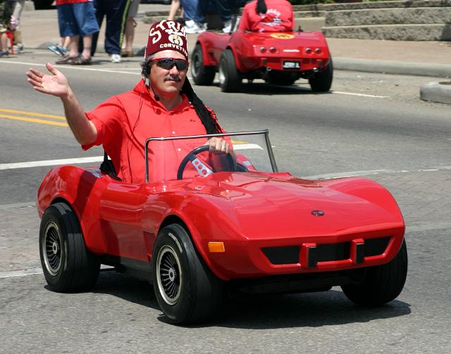 A member of the Shriner Syrian Corvette group participating in a Memorial Day parade, 2004, by Rick Dikeman